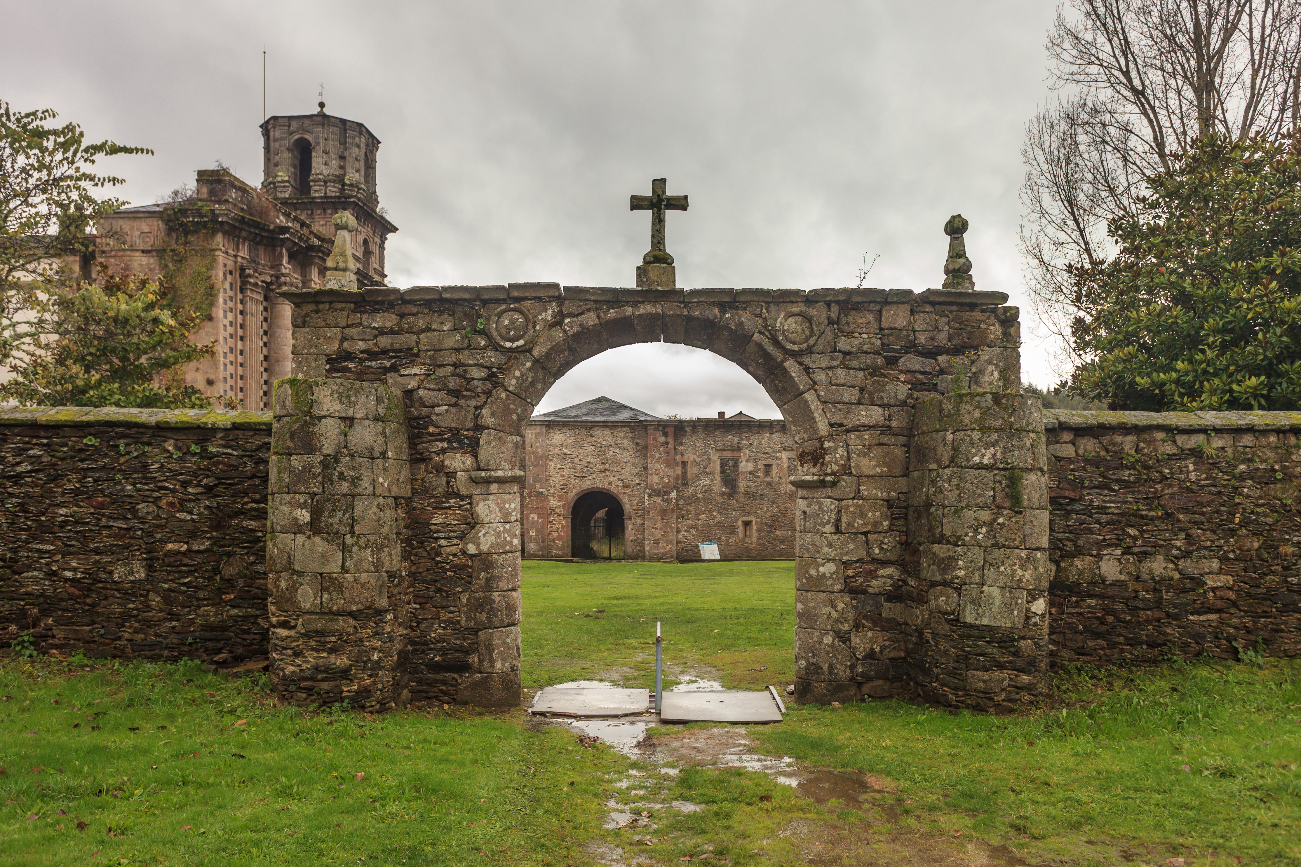 Monastery of Santa María de Monfero, Galicia (Spain).